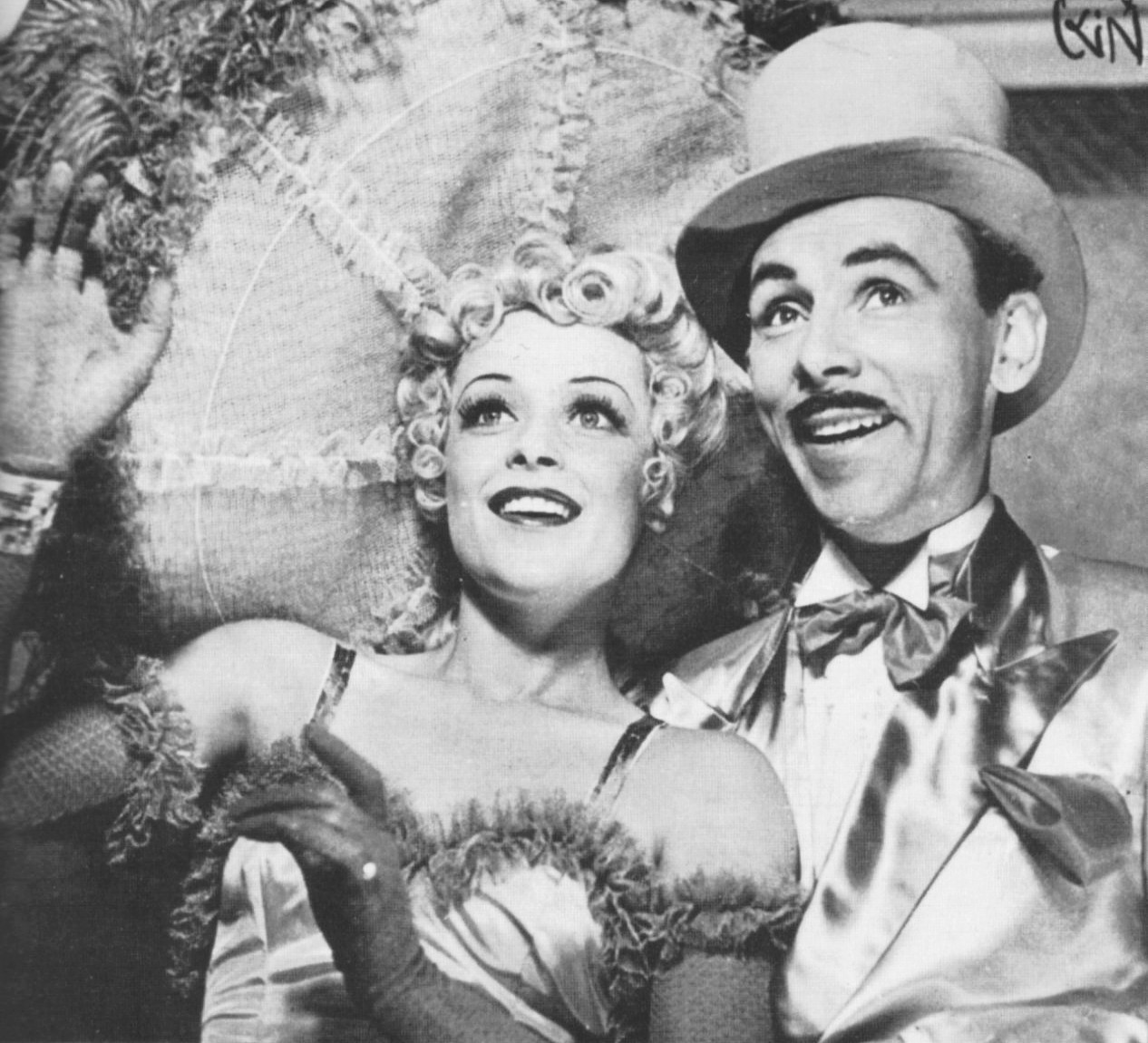 Actors Annalisa Ericson and Nils Poppe in the first Swedish production in 1942 of Jerome Kern's and Oscar Hammerstein's musical "Show Boat" at the Oscarsteatern in Stockholm.